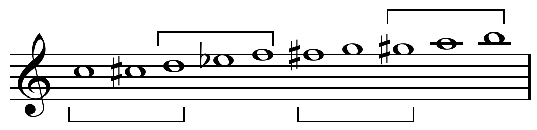 Unordered sets from the second of Stockhausen's Klavierstücke I–IV